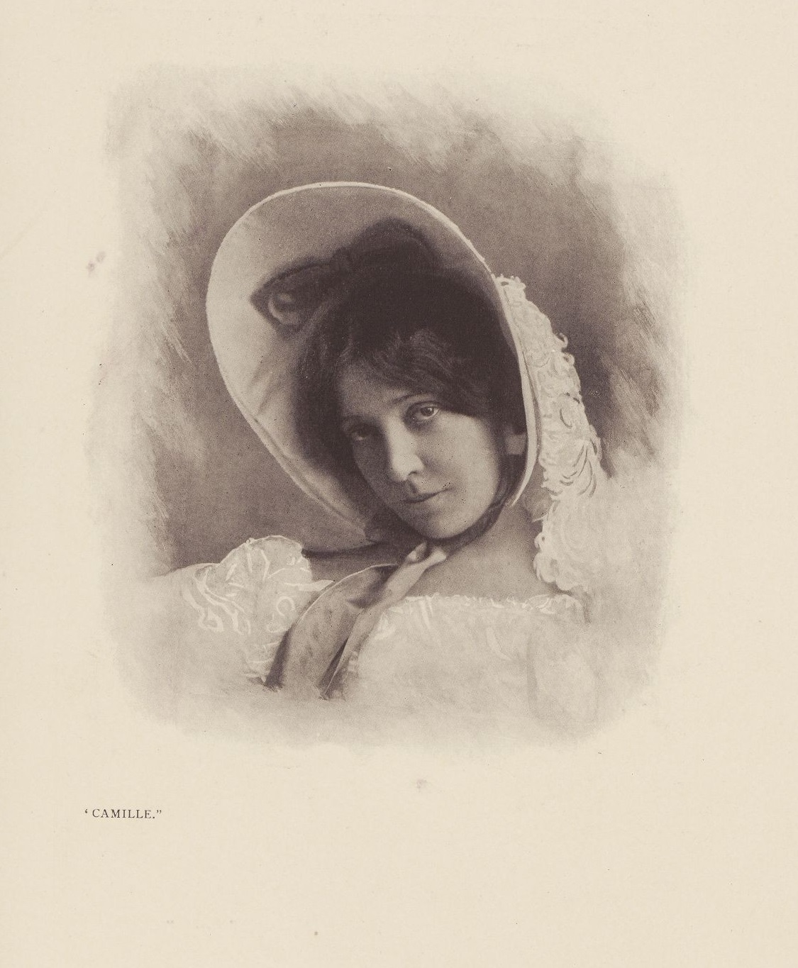 Image of actress Olga Nethersole (1867-1951), in costume as "Camille". From a souvenir collection of pictures, circa 1900. Souvenir Programs of Theatrical Productions, MS Thr 712 (87), Harvard Theatre Collection, Houghton Library, Harvard University